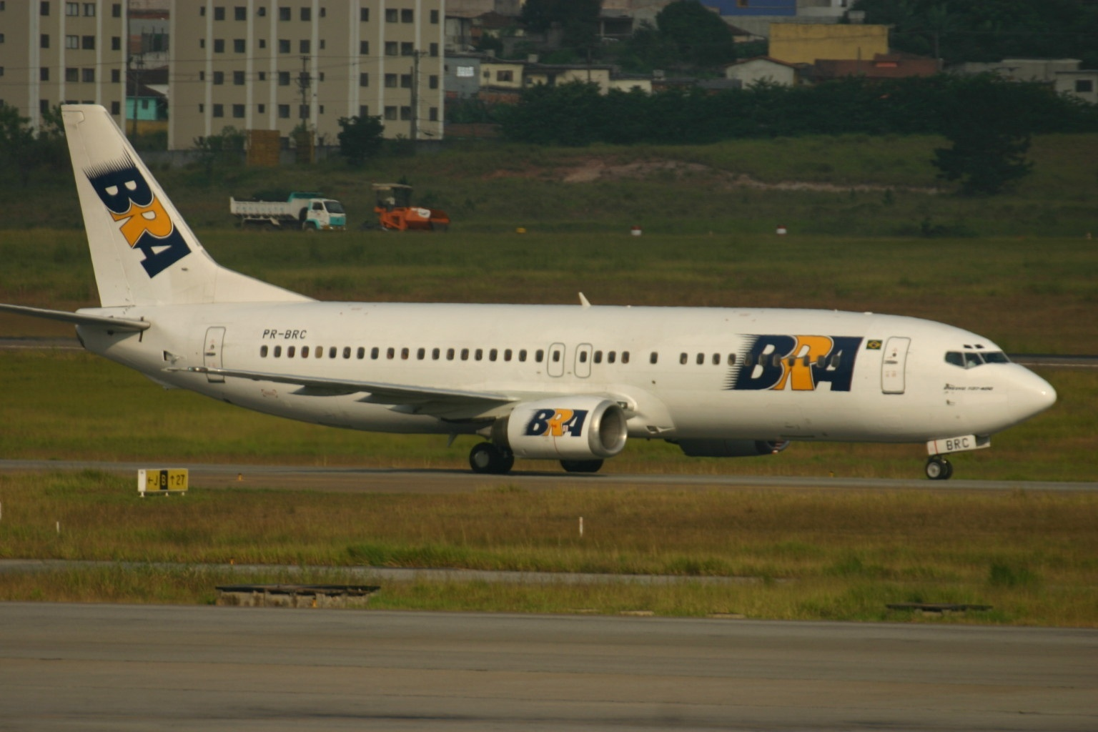 At Sao Paulo Guarulhos